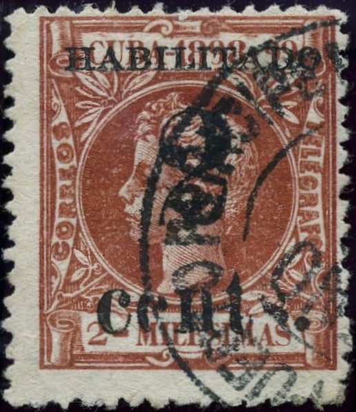 Representative stamp from first printing of U.S. Provisional stamps for Cuba in Puerto Príncipe